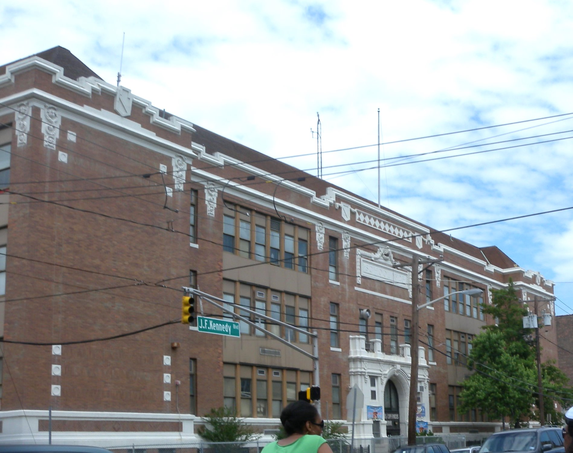 Looking north from Zabriskie St across JFK Blvd at Copernicus elementary school on a mostly cloudy midday.